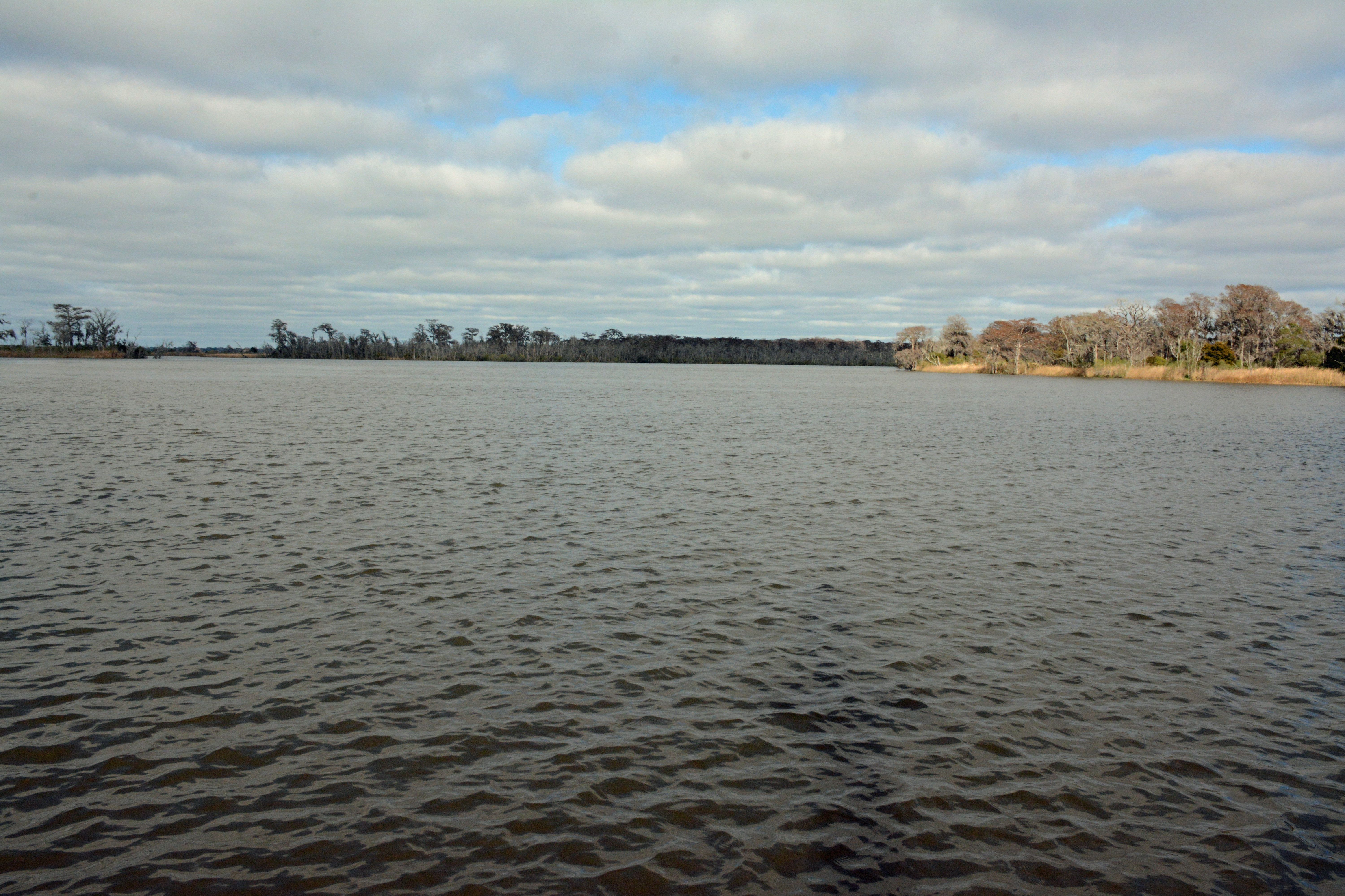 Altamaha River on the border of McIntosh and Glynn Counties, Georgia, USA, looking towards the Atlantic Ocean.